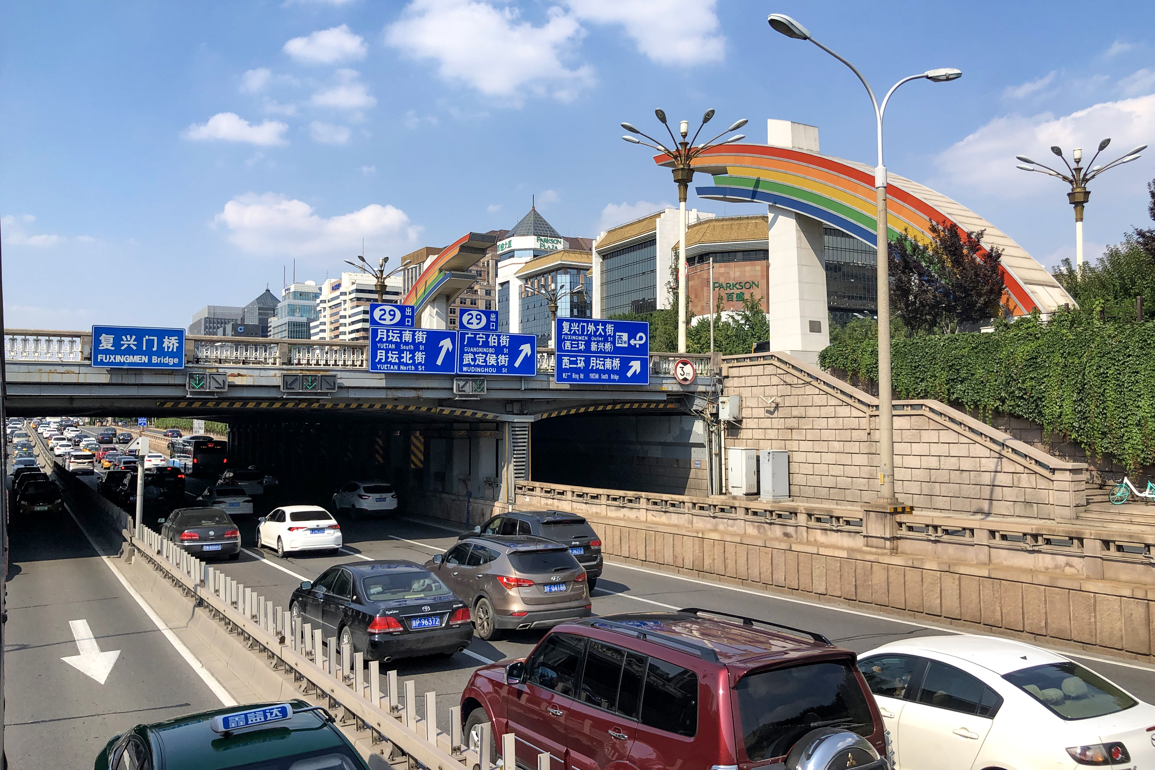 Taken from a T12.